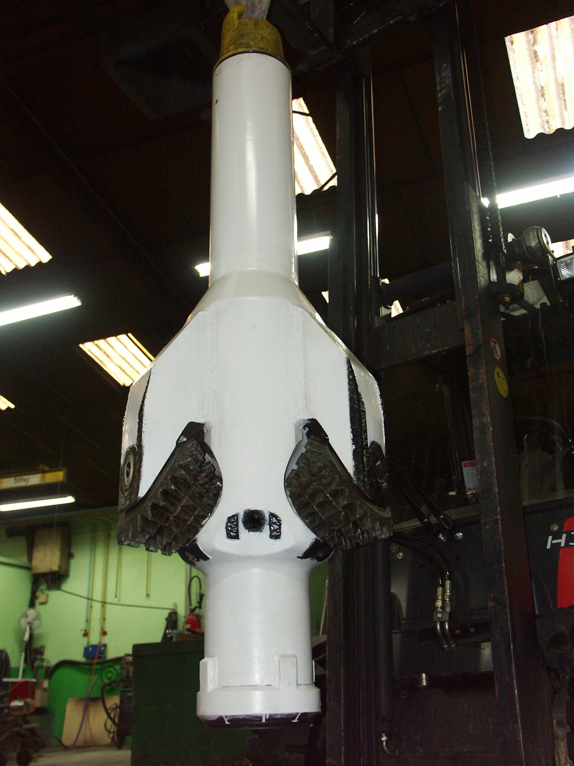 26 in. roller cones hole opener. (Drillstar type)